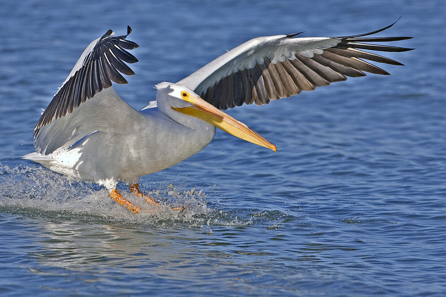 American White Pelican, Fulton Harbour, Fulton, Texas